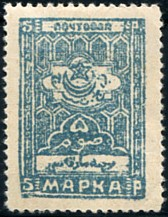 Postage stamp of the Bukharan People's Soviet Republic, 5 rub. gray-blue, 1924.